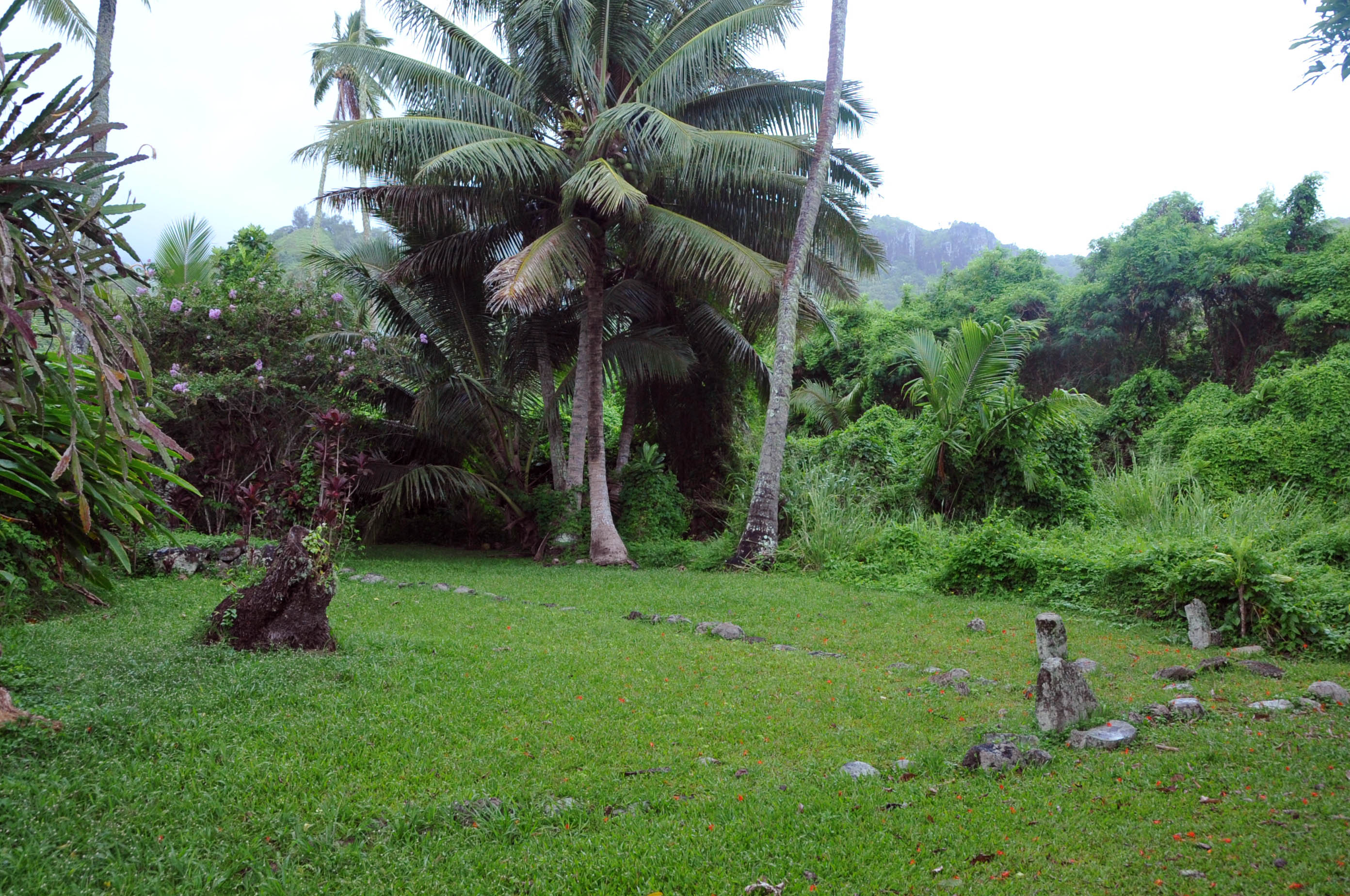 MOST IMPORTANT MARAE ON THE ISLAND AND PLACE WHERE CHIEFS ARE INSTALLED. ORIGINALLY A SITE OF PAGAN WORSHIP THEY ARE STILL USED TO INSTALL LOCAL CHIEFS AND NON-COOK ISLANDERS ARE NOT PERMITTED TO SET FOOT ON THE STRUCTURE